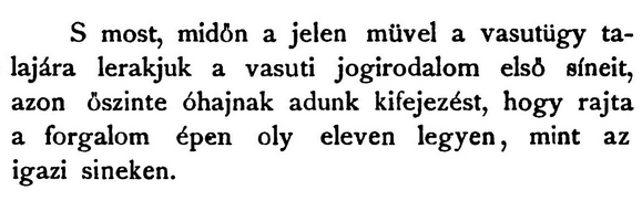 Preface of his book 'A magyar vasúti jog'